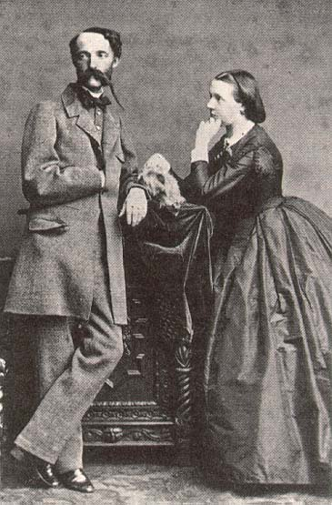 Palatine Stephen of Hungary (1817-1867) and Archduchess Hermine of Austria (1817-1842)